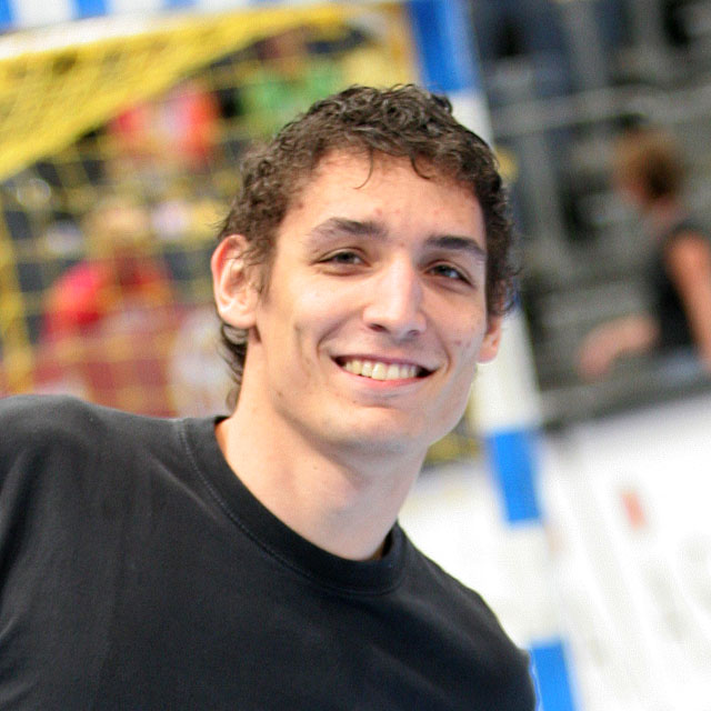 Jure Dobelšek, slovenian handball player. Prior the final EHF Cup game on June 1st 2009, VfL Gummersbach vers. RK Velenje in Cologne´s Lanxess arena.